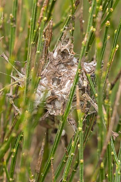 Cocoon of Agelena labyrinthica